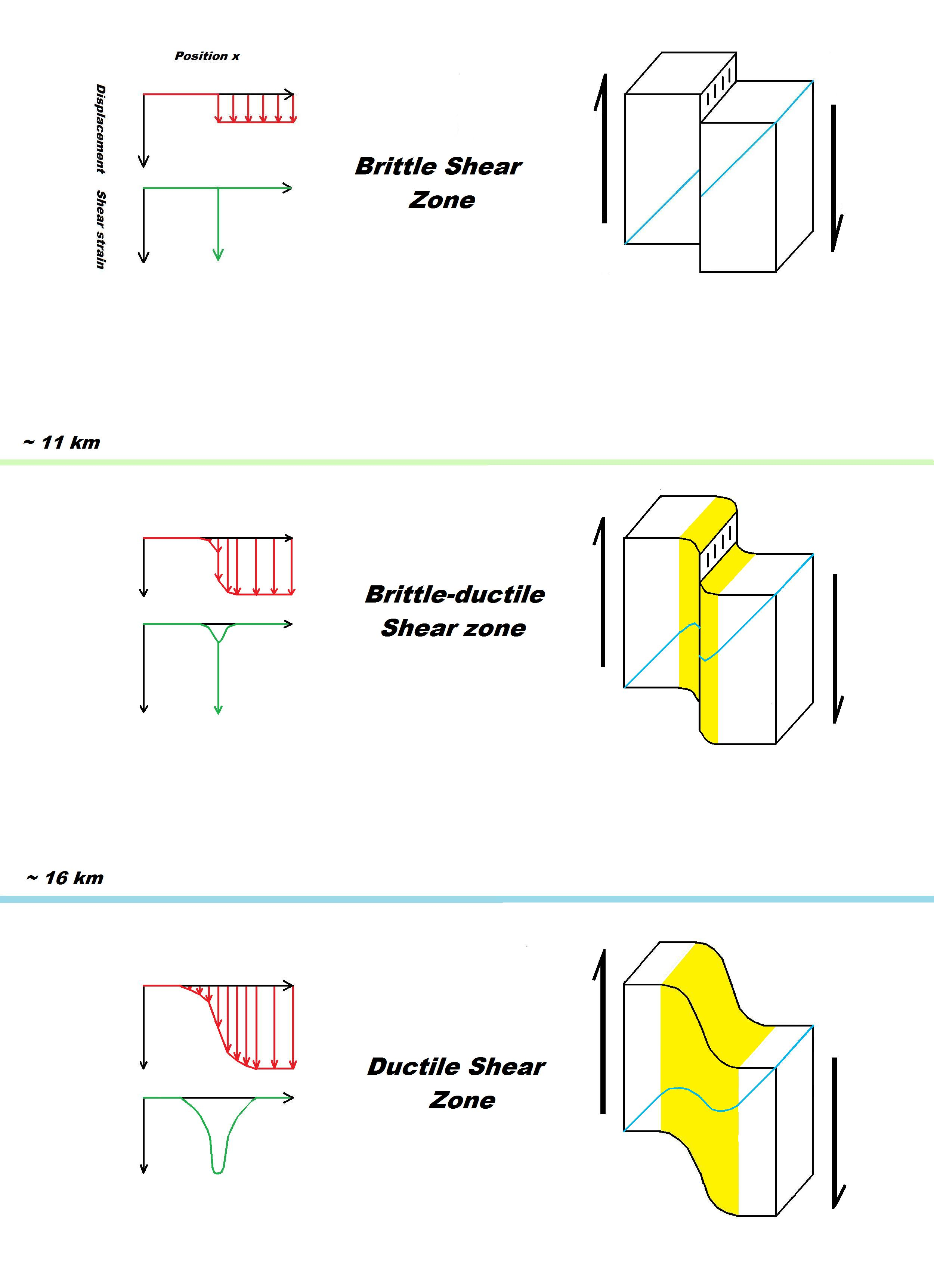 Diagram showing the types of shear zones. Indicated is the displacement and the strain field. Outlined also the depth distribution. Completely redrawn from Ramsey & Huber.